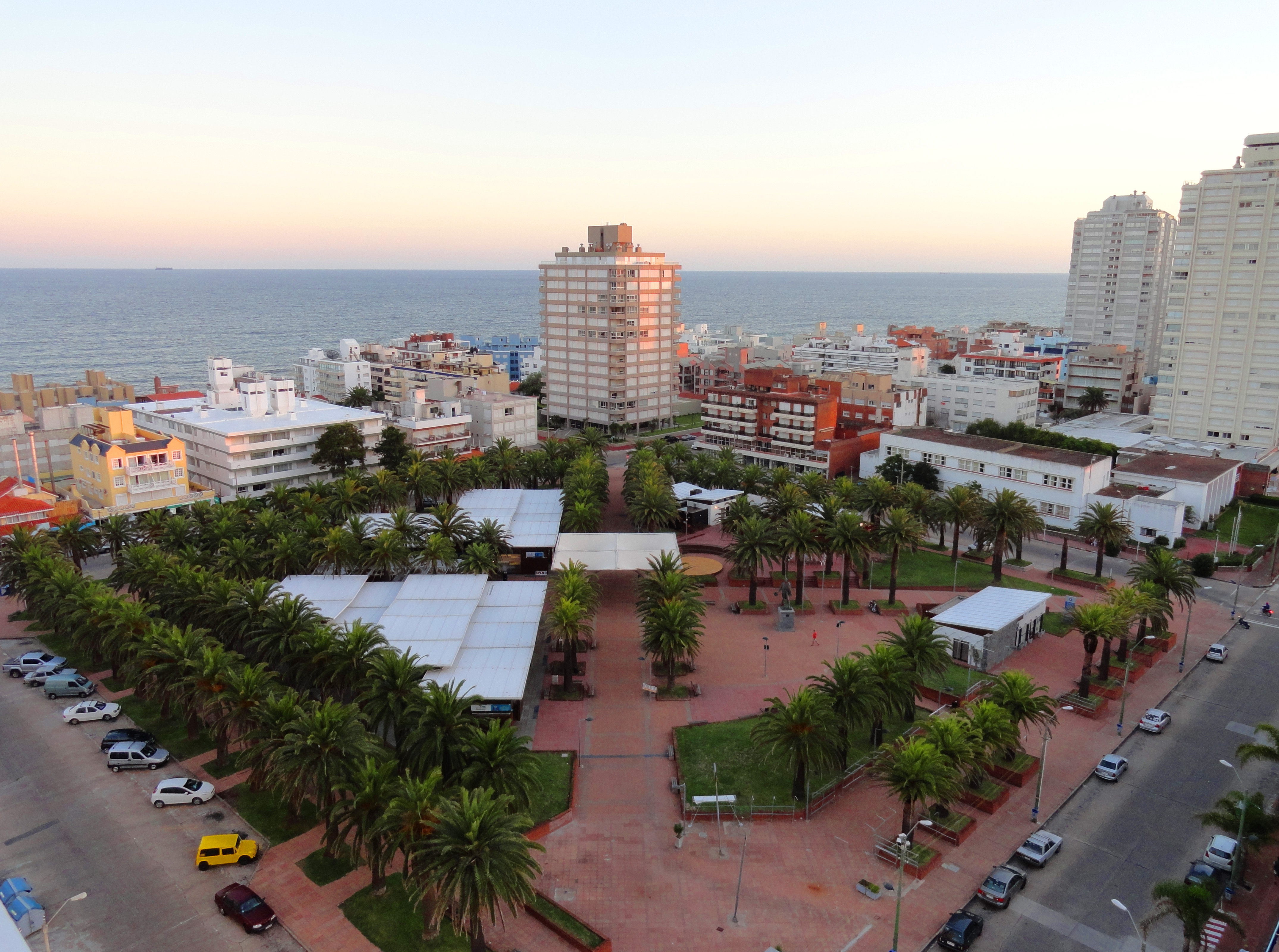 Plaza de los Artesanos (Artisans Square) in Punta del Este,Uruguay